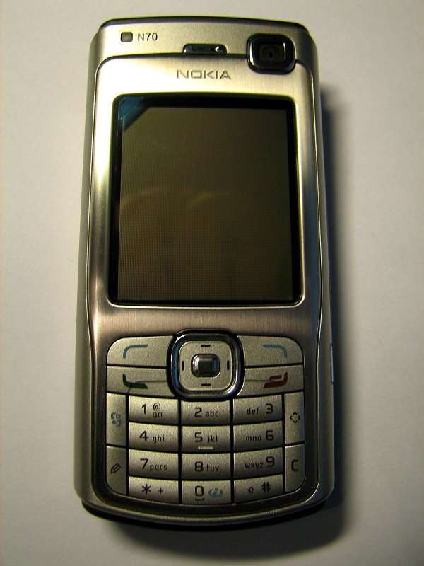 Nokia N70 smartphone. Photo by Jericomobile.